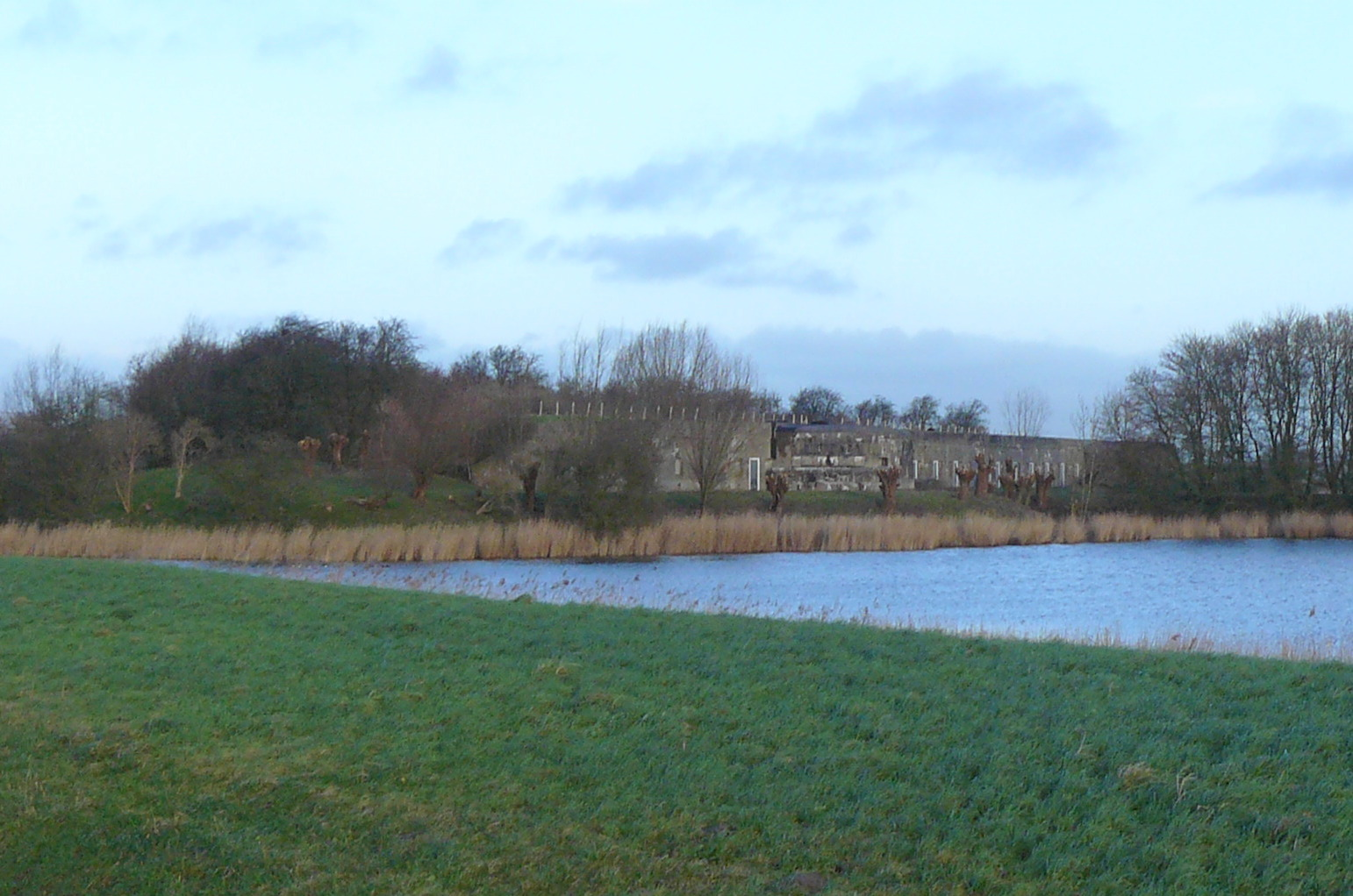 Fort Zuidwijkermeer as seen from the North Sea Canal.